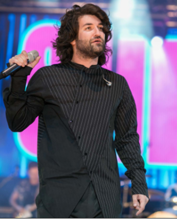 Smiley in concert at Arenele Romane, 2016